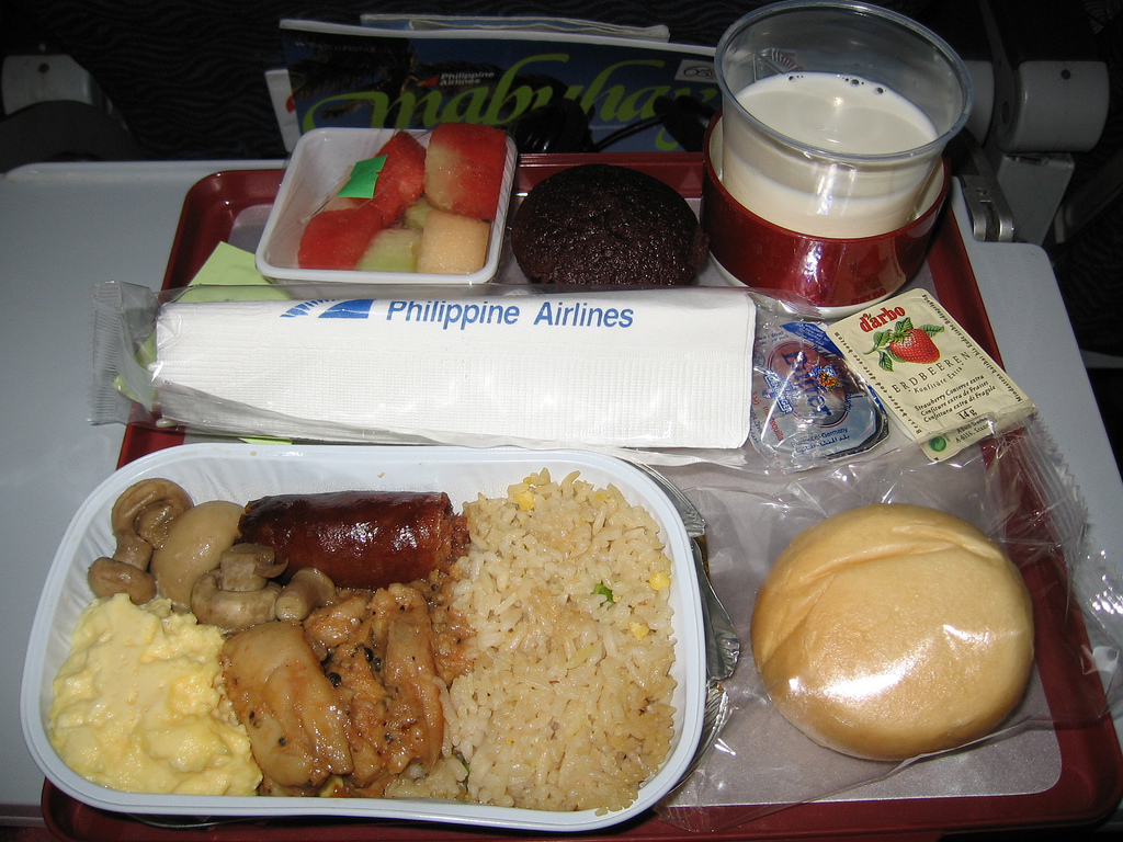 An economy breakfast onboard a Philippine Airlines flight MNL-HK.